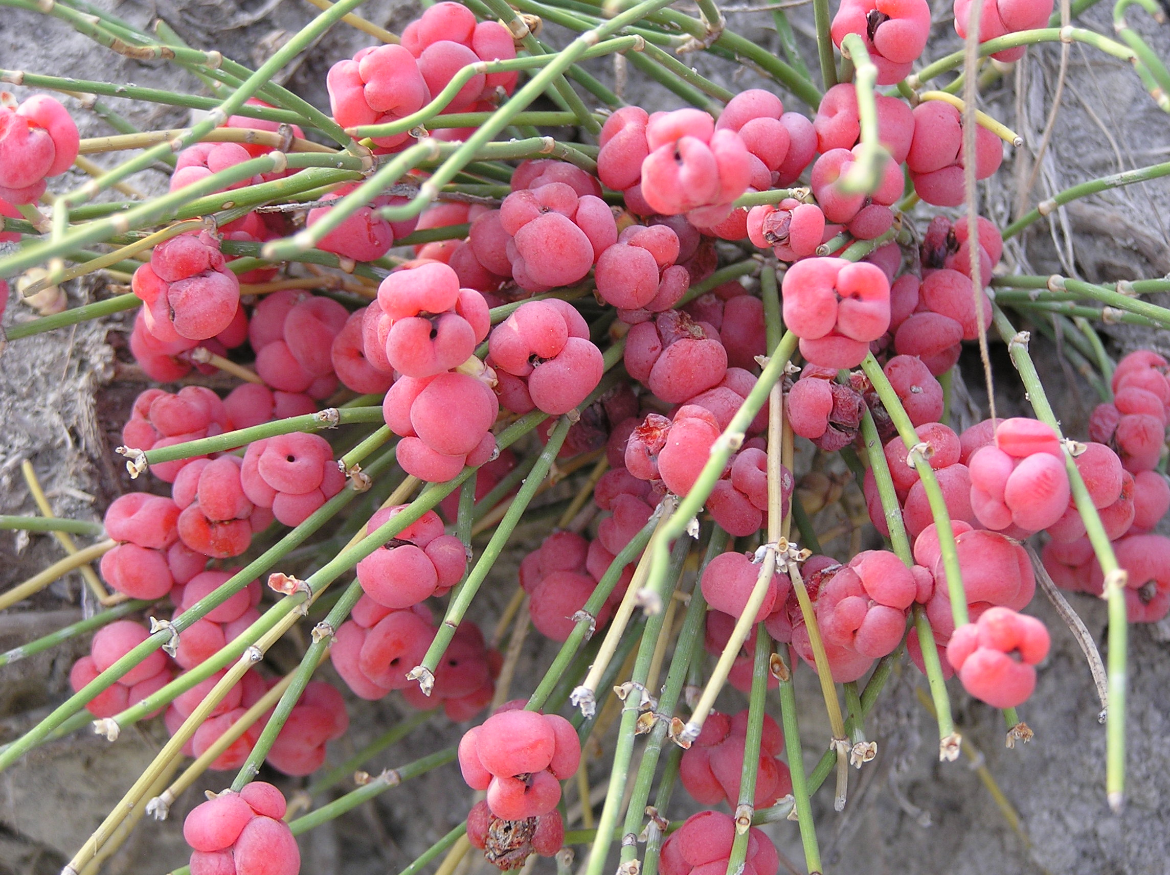 Ephedra distachya subsp. monostachya (L.) Riedl., female plant with ripe cones. Habitat: chalk exposure. Vicinity of Saratov city, Russia.